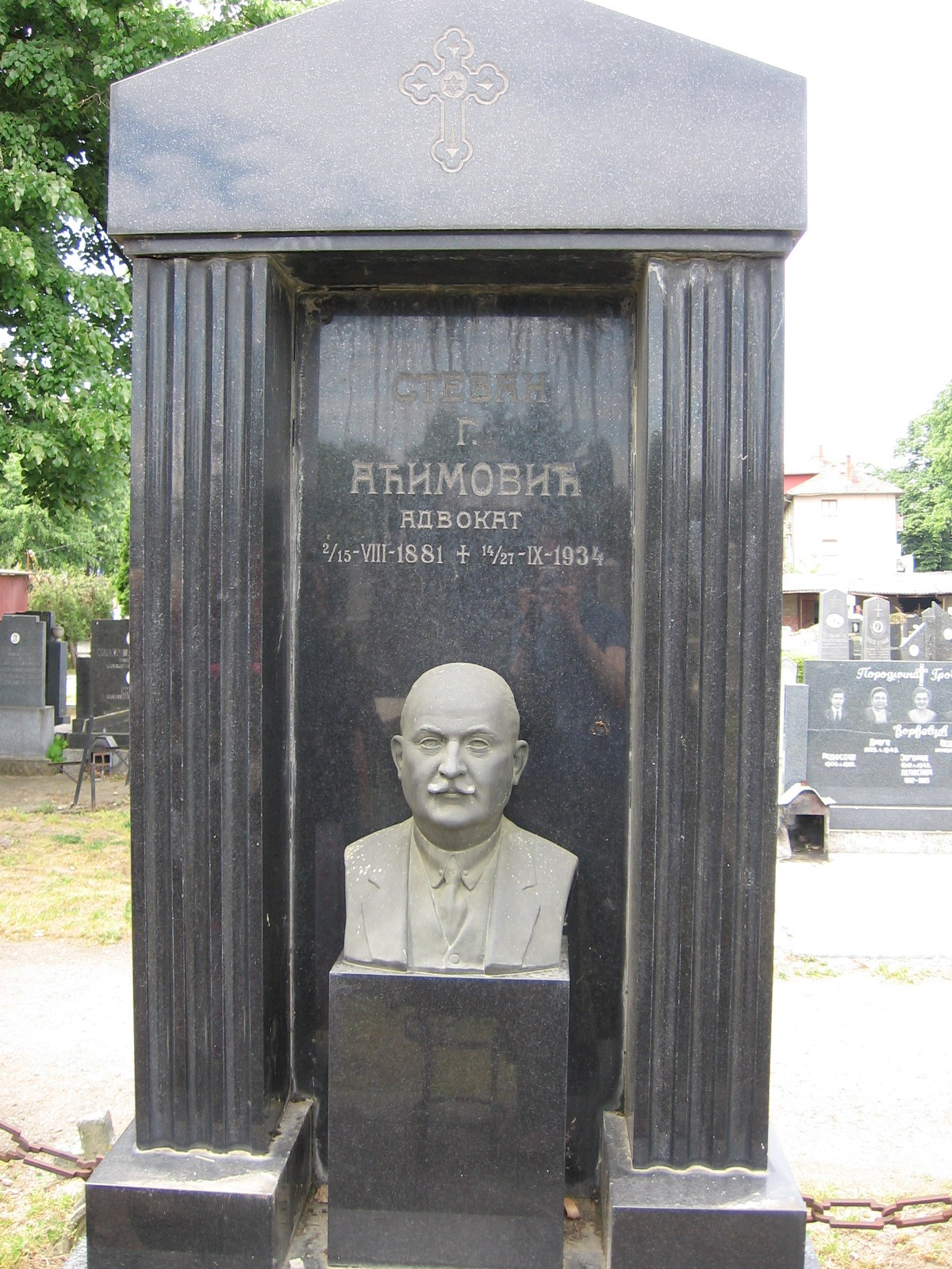 The grave of Stevan Aćimović, distinguished Serbian lawyer Српски (ћирилица): Гроб Стевана Аћимовића, адвоката, на трстеничком гробљу